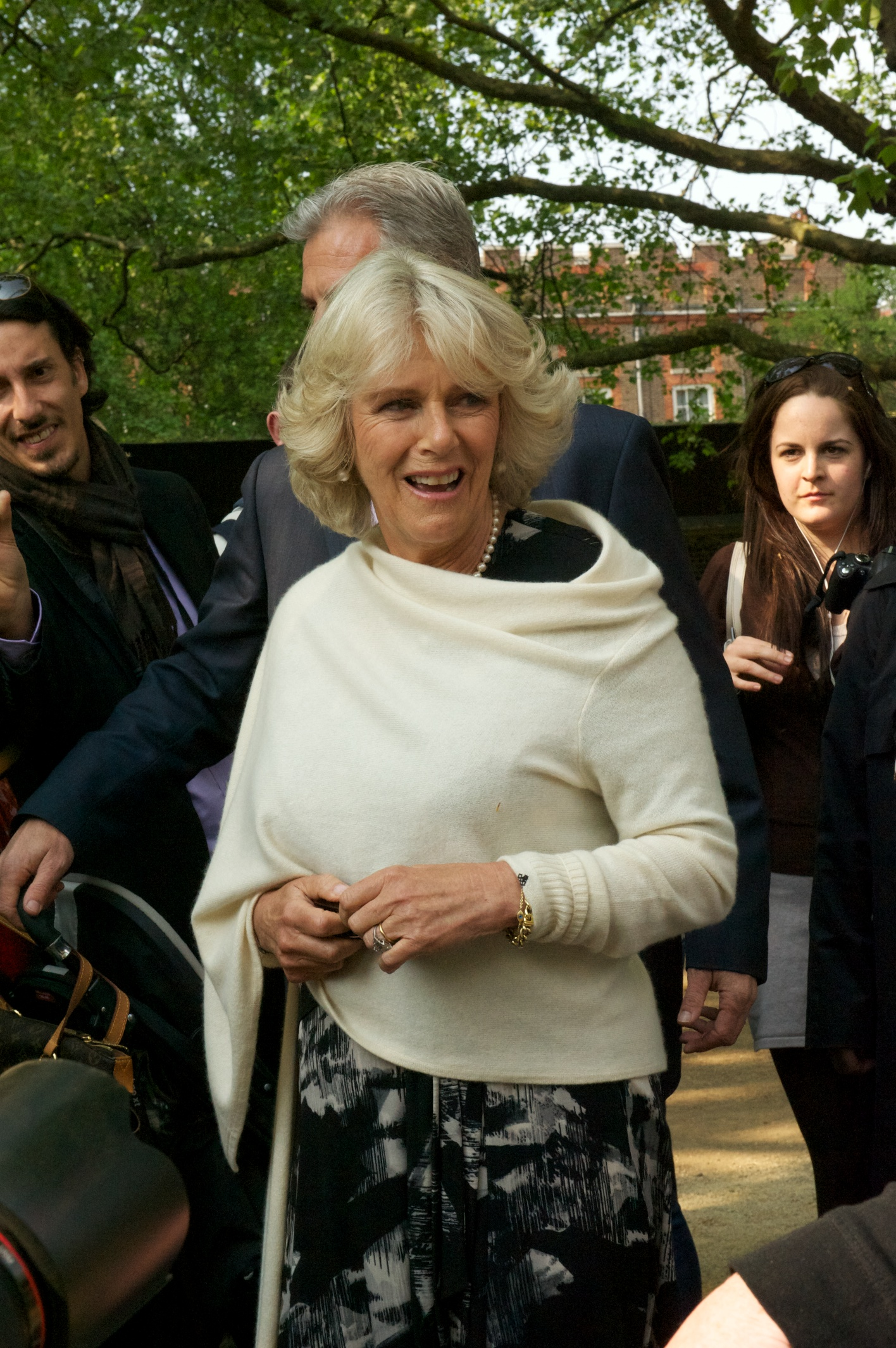 Camilla, Duchess of Cornwall, before the wedding of Prince William, Duke of Cambridge, and Catherine Middleton, in London.